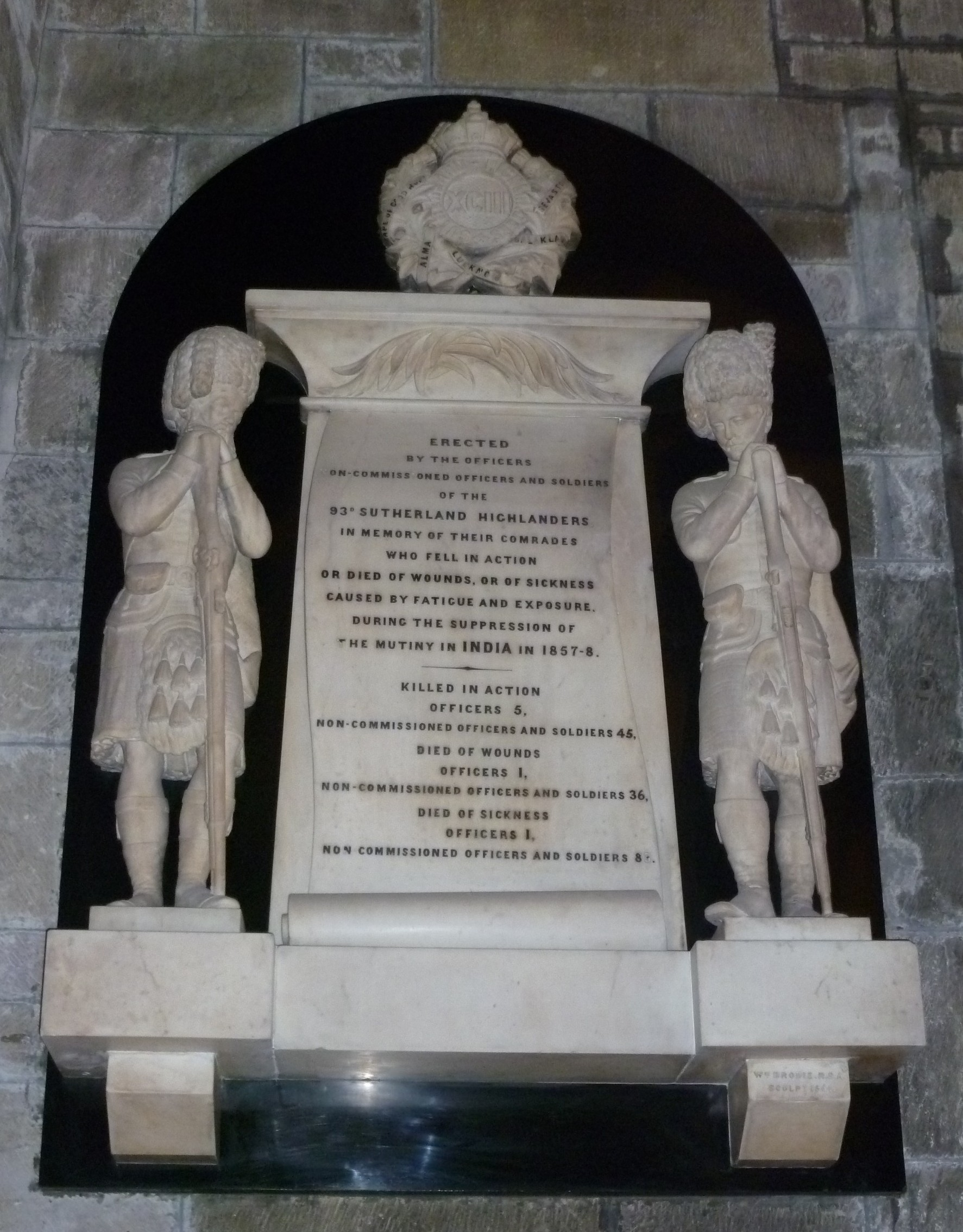 Memorial commemorating officers and men of the 93rd Sutherland Highlanders killed in the suppression of the Indian Mutiny, 1857-8